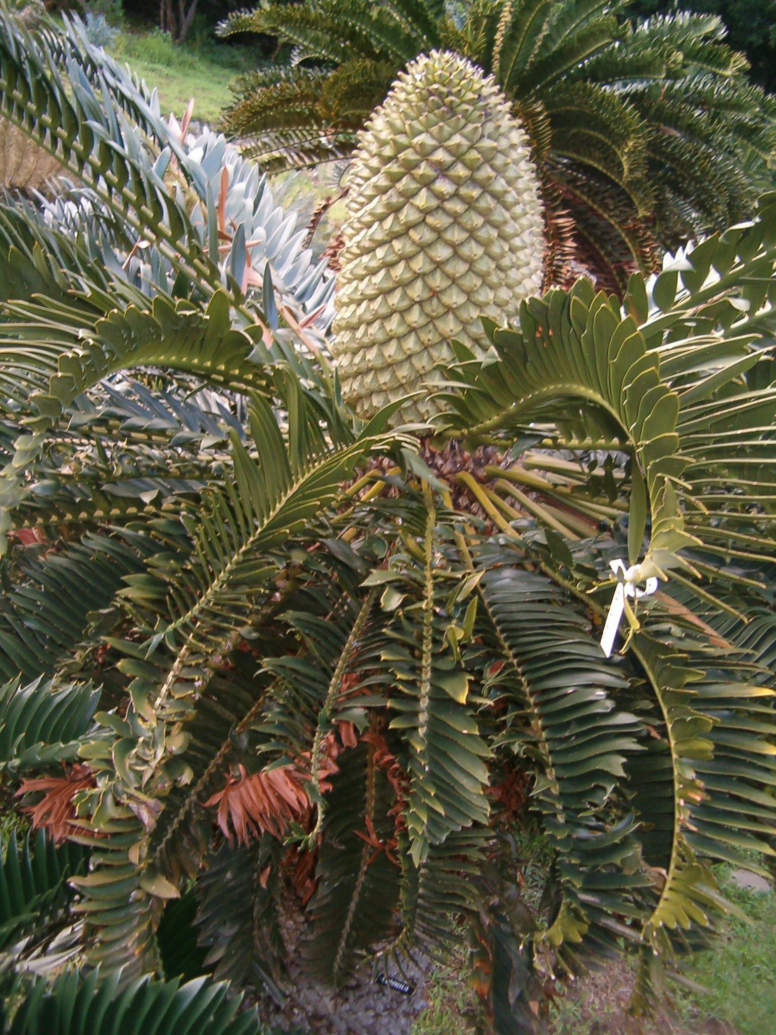 At Kirstenbosch National Botanical Gardens Genus: Encephalartos